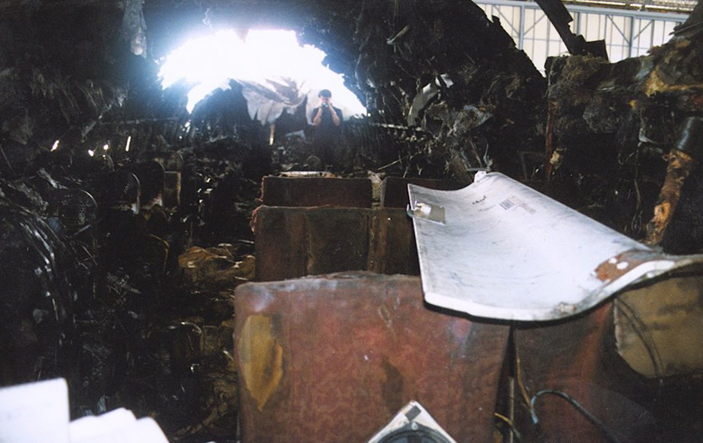 Uni Air Flight 873 landed at Hualien Airport and was rolling on Runway 21, when an explosion was heard in the front section of the passenger cabin, followed by smoke and then fire.